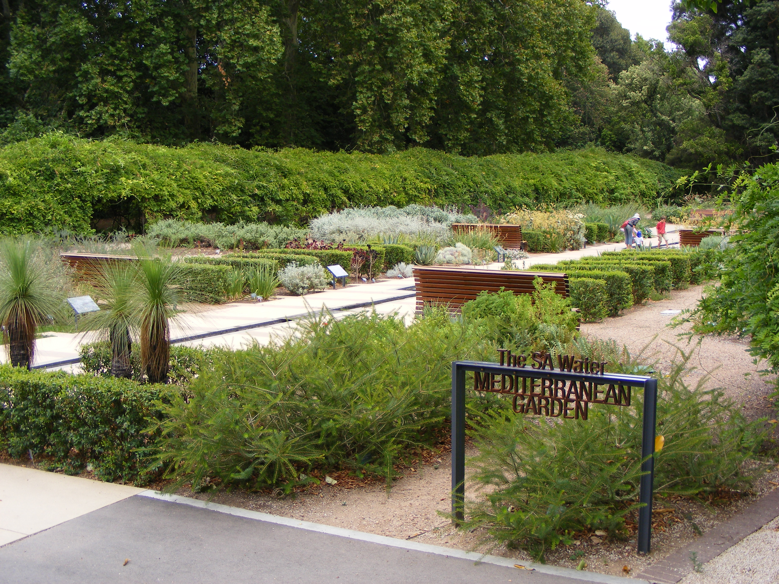 The SA Water Mediterranean Garden at the Botanic Garden, Adelaide, South Australia